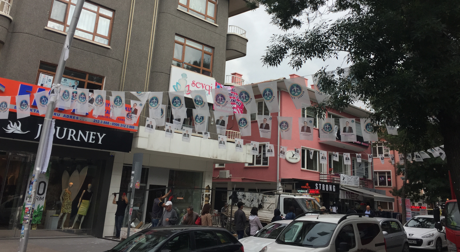 Centre Party (MEP) flags during the 2015 Turkish general election campaign